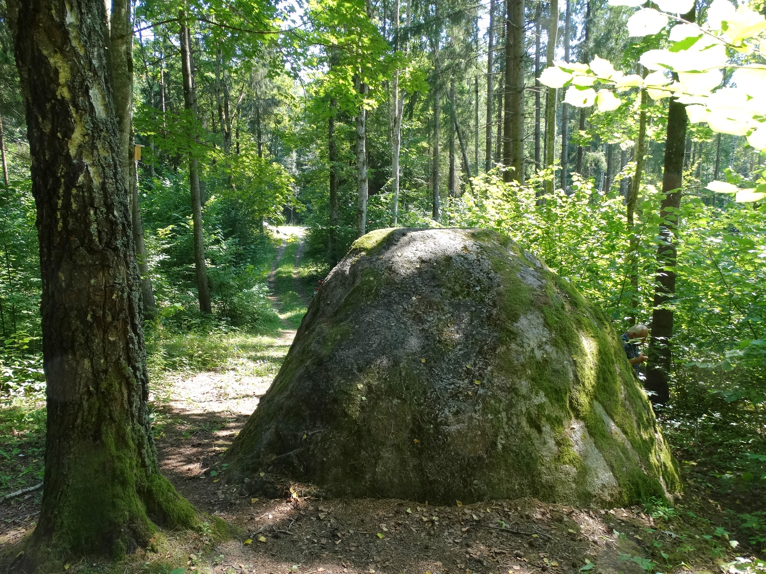 Stone „Ožakmenis“, Rokiškis District, Lithuania